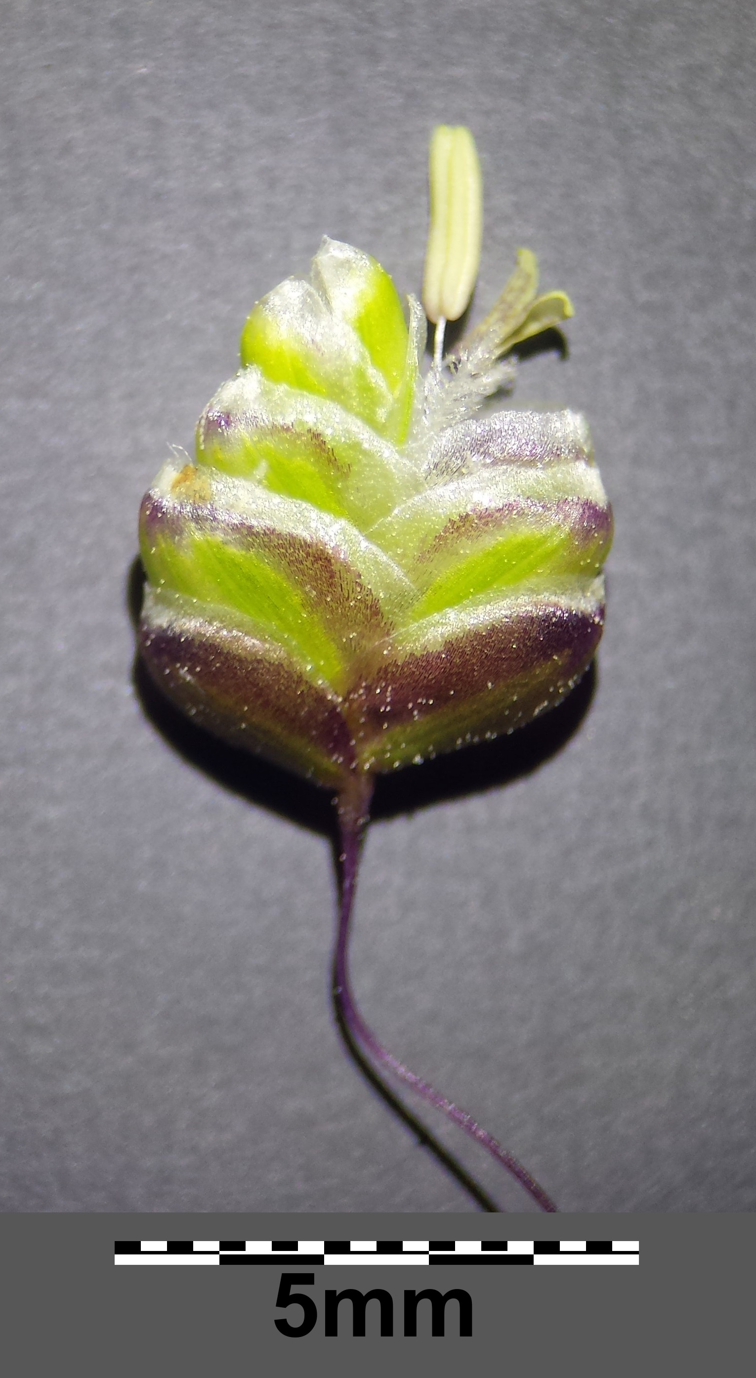 Spikelet Taxonym: Briza media ss Fischer et al. EfÖLS 2008 ISBN 978-3-85474-187-9 Location: Rohrwald, district Korneuburg, Lower Austria - ca. 250 m a.s.l. Habitat: meadows